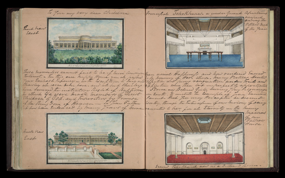 Different views of the Metcalfe House, Delhi, 1843. From 'Reminiscences of Imperial Delhi’, an album consisting of 89 folios containing approximately 130 paintings of views of the Mughal and pre-Mughal monuments of Delhi, as well as other contemporary material, with an accompanying manuscript text written by Sir Thomas Theophilus Metcalfe (1795-1853), the Governor-General’s Agent at the imperial court. Details at Britsh Library page